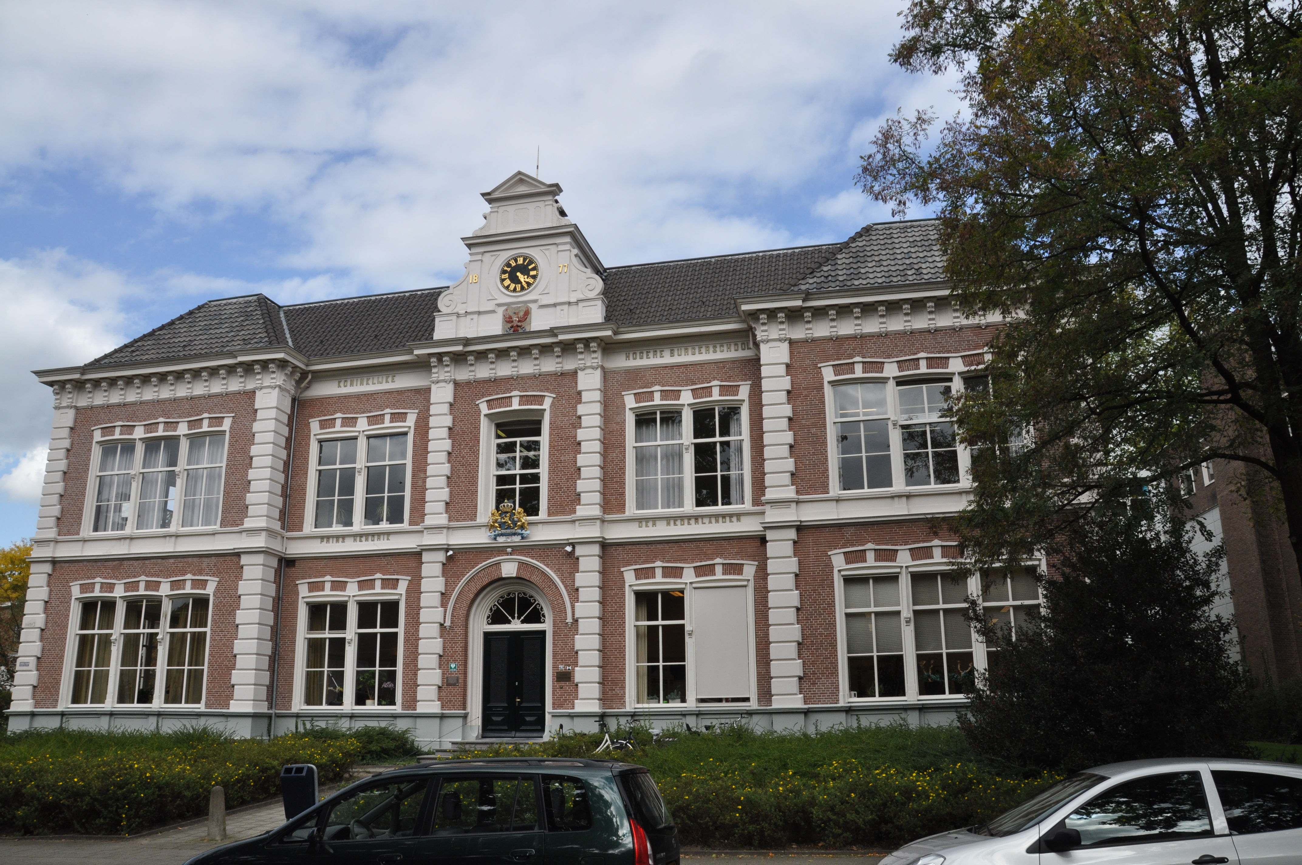 Building highschool Apeldoorn